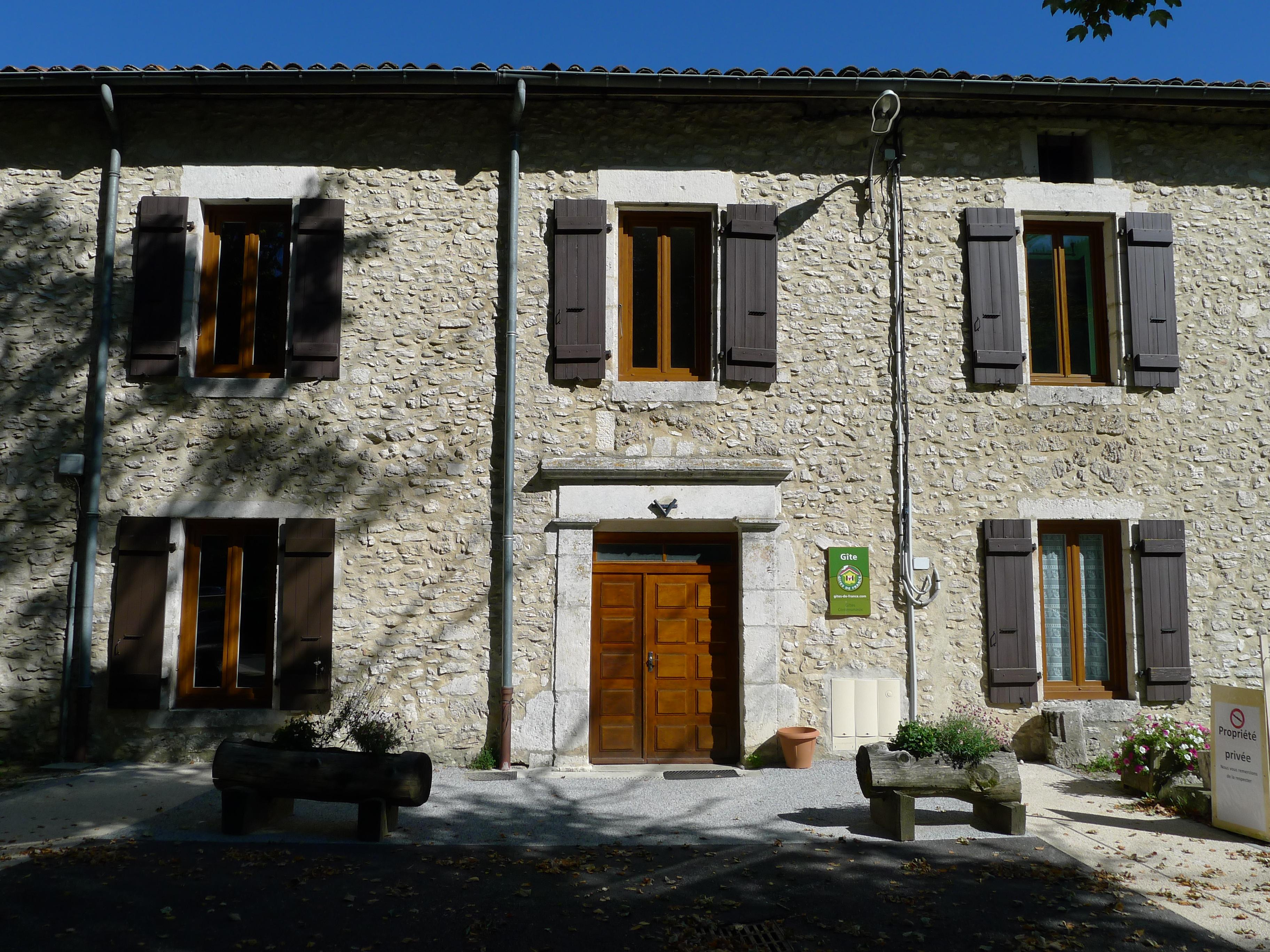 Town hall of Léoncel - Drôme - France